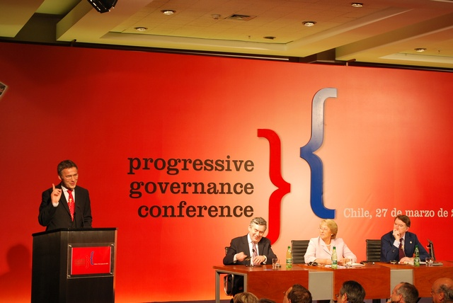 Jens Stoltenberg, Prime Minister of Norway, at the Leaders Panel, Progressive Governance Conference Chile, March 27, 2009.